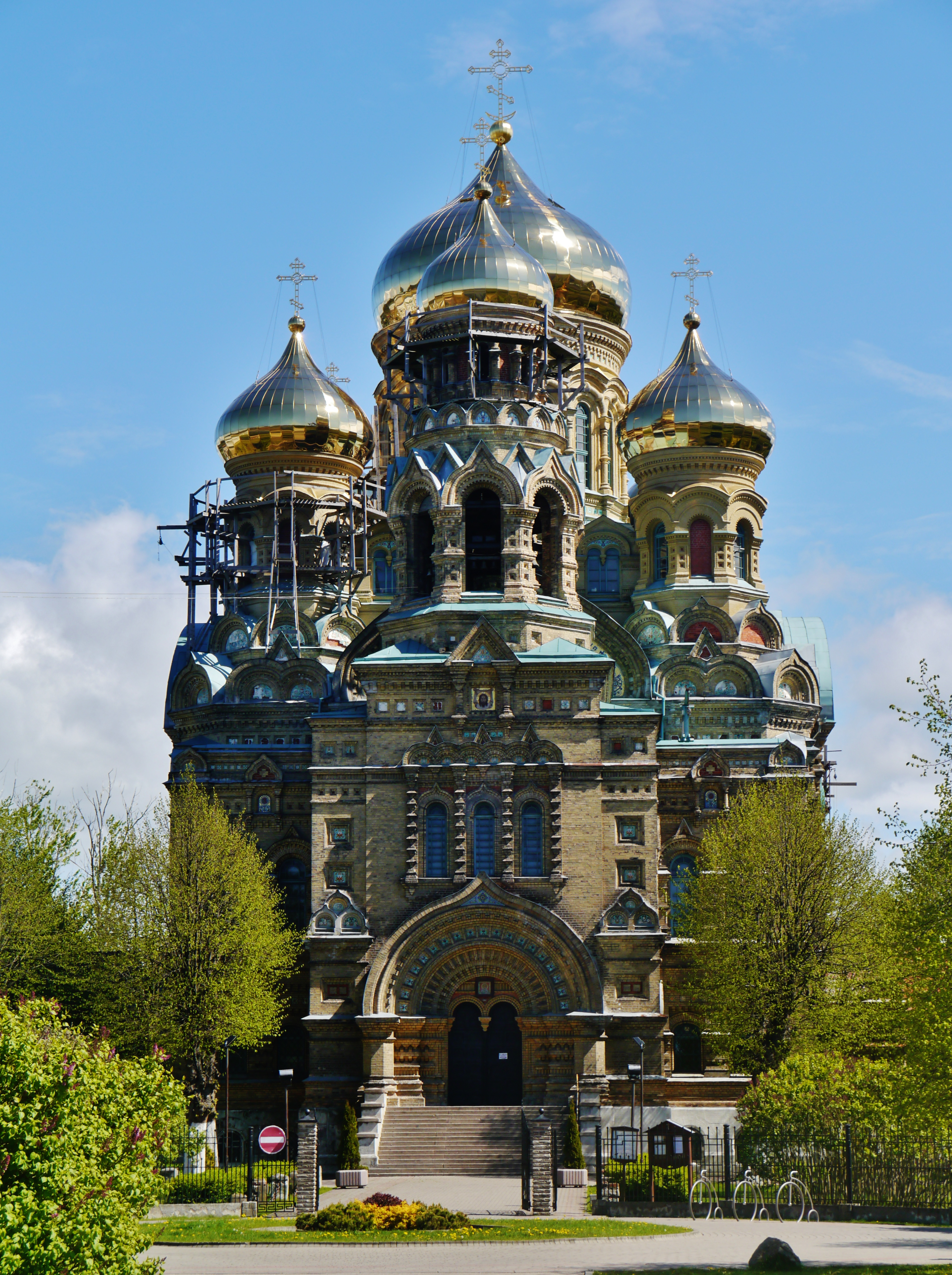 facade of the Russian Orthodox Cathedral St. Nicholas, Liepaja-Karosta, Latvia